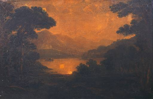 Photograph of Loch-an-Eilean, Rothiemurchus, Inverness-shire, 1835. Oil on canvas, by Reverend John Thomson.